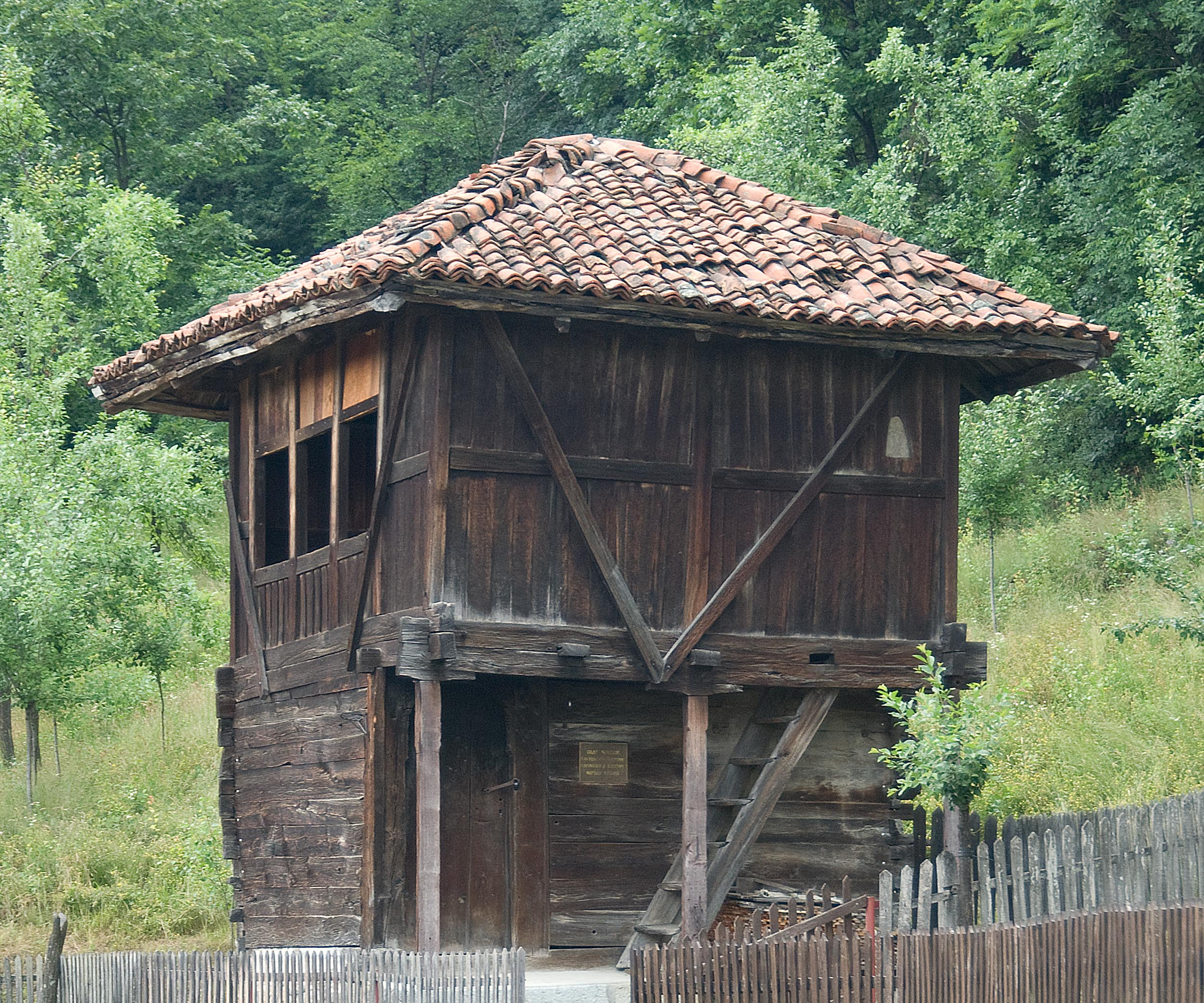 Cardak in Majdan village, Serbia